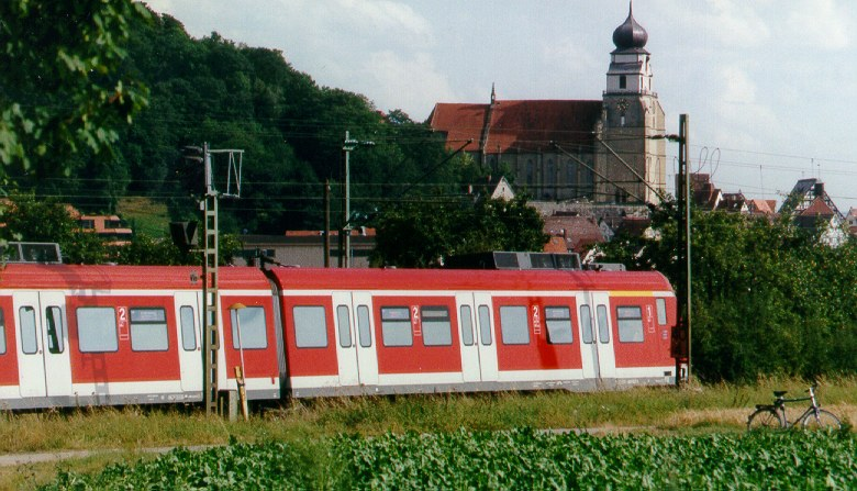 Stuttgart's suburban rail train type 423 close to Herrenberg train station